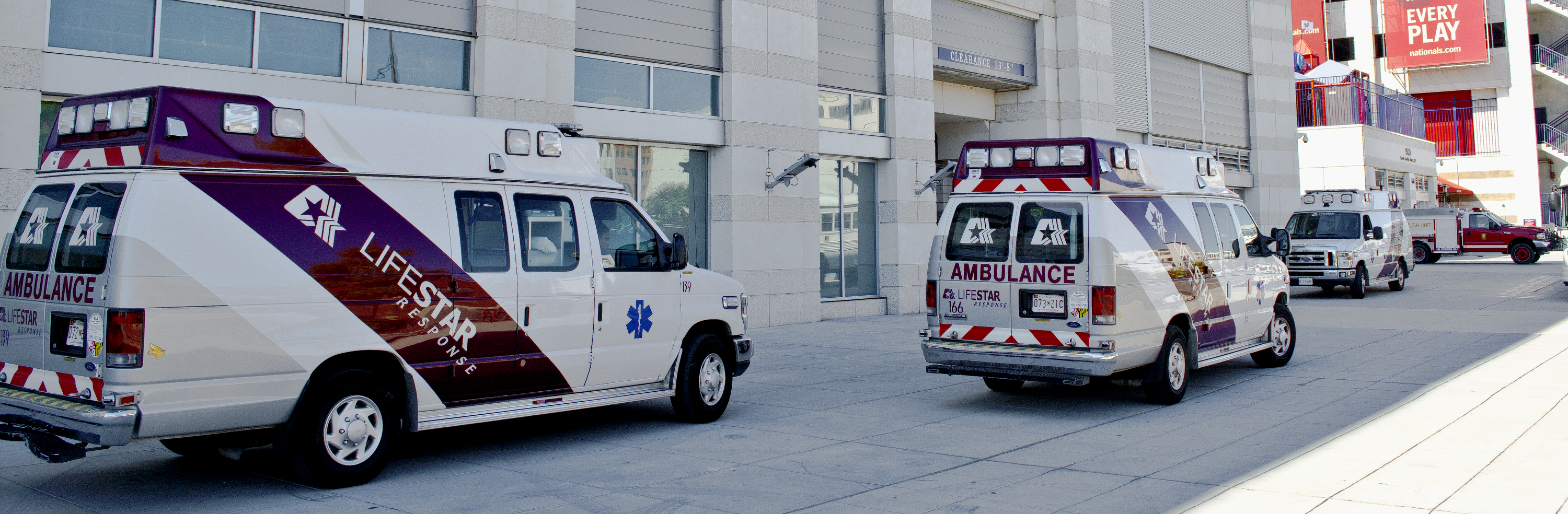 Three private Lifestar ambulances on stand-by service at a Washington Nationals major league baseball game at Nationals Park in Washington, D.C., in the United States. The D.C. Fire and Emergency Medical Services Department has so few ambulances that it must contract with private companies to provide emergency medical services at sporting events. The cost is about $2,500 per game. Note the DCFEMS Brush Unit in the background. The Brush Unit provides services for wildfires (grasslands, trees, bushes, etc.). It is unclear why this unit is delegated to the baseball game (where there is no brush, tress, or grass).